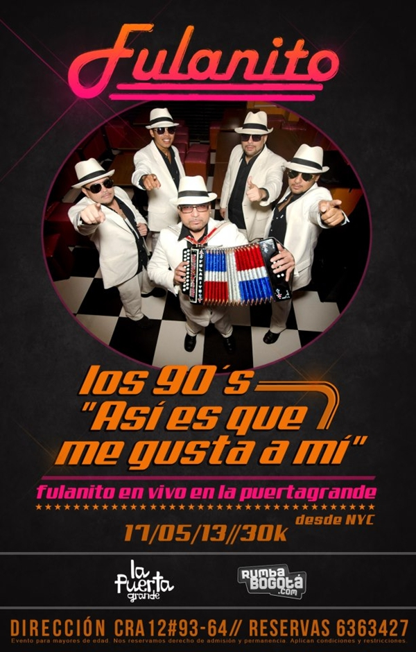 Fulanito En La Puerta Grande Mayo 17, 2013